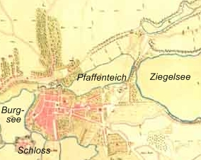 Pfaffenteich in Schwerin around 1750